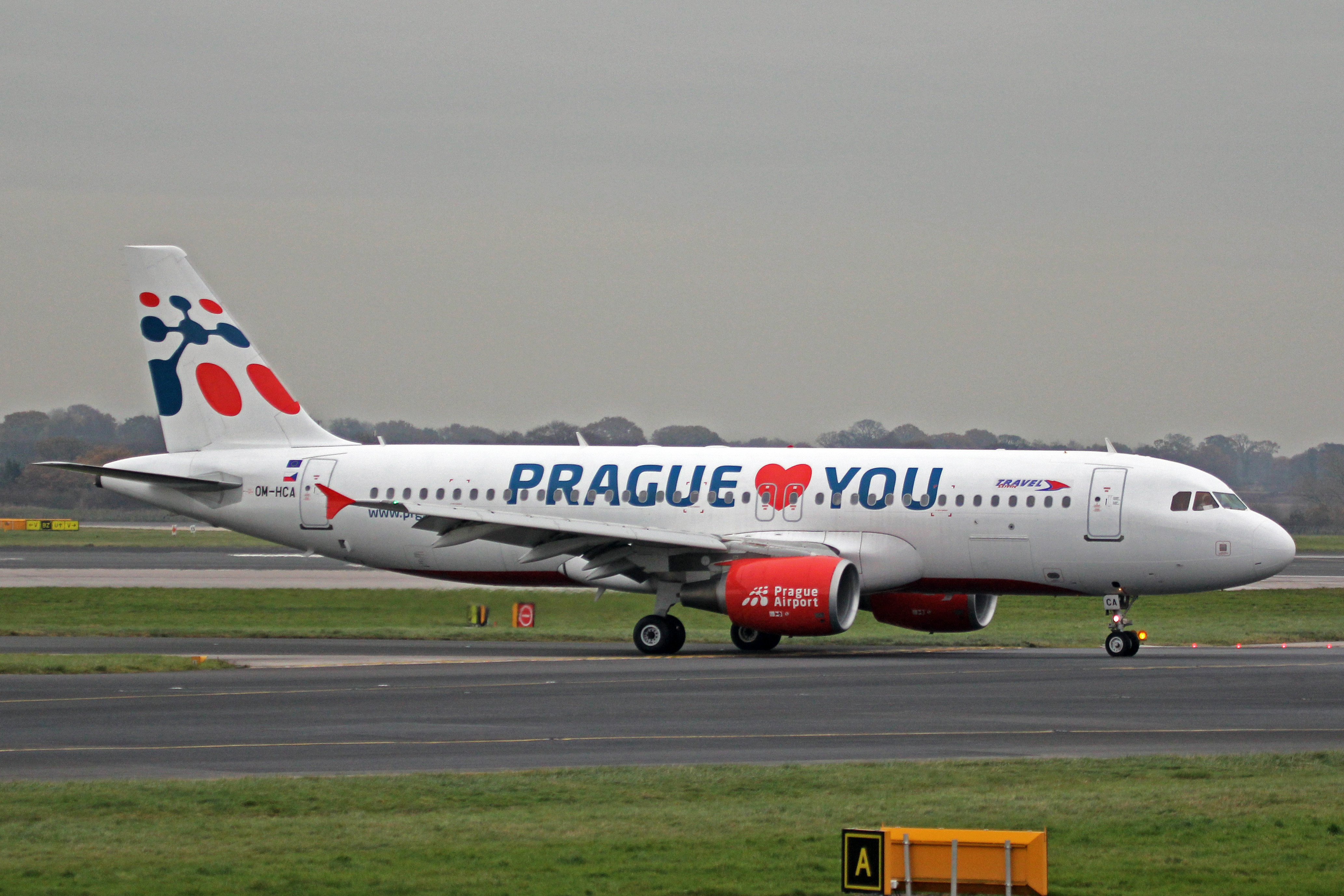 Travel Service Airlines - Slovakia, still in the 'Prague Loves You' special c/scheme from when it was with 'Holidays Czech Airlines'.